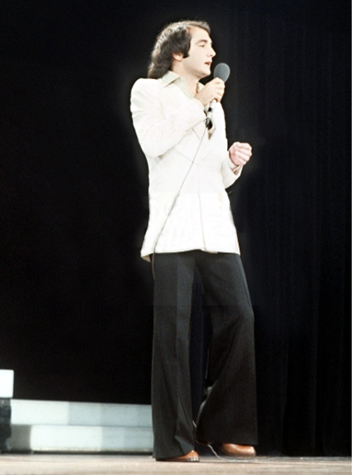 Juan Camacho en directo